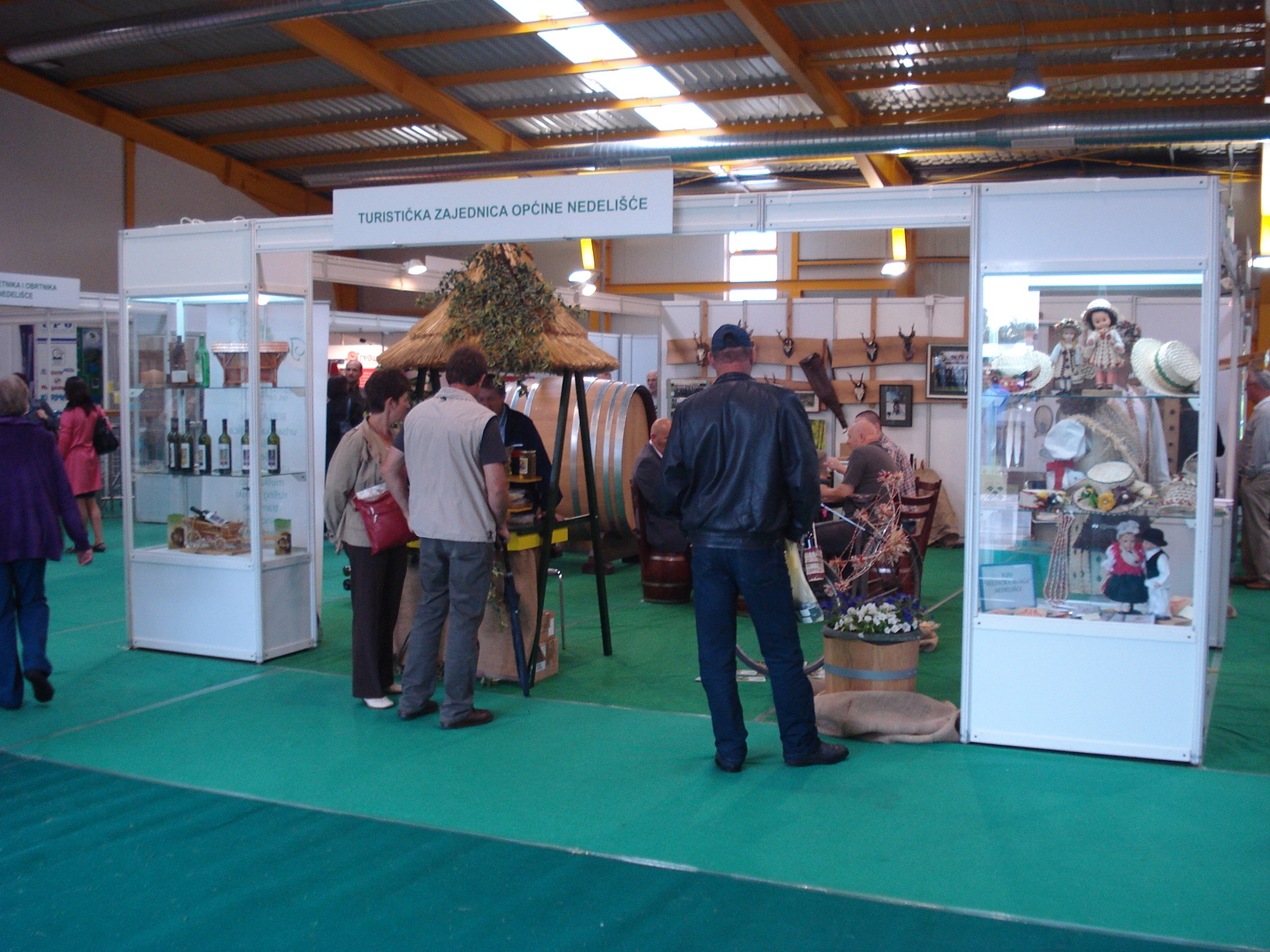 MESAP 2011. trade fair in Nedelišće, Medjimurje County, Croatia - exhibition booth of the Nedelišće municipality tourist board